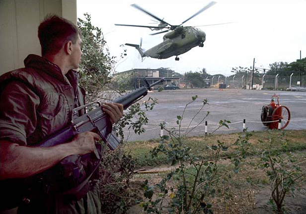 United States Marine Private First Class Forrest M. Turner, Jr. provides security as two Sikorsky CH-53 helicopters land at the Defense Attaché Office compound during Operation Frequent Wind. Military helicopters dropped the ground security component at landing zones. Once on the ground they set up security positions.